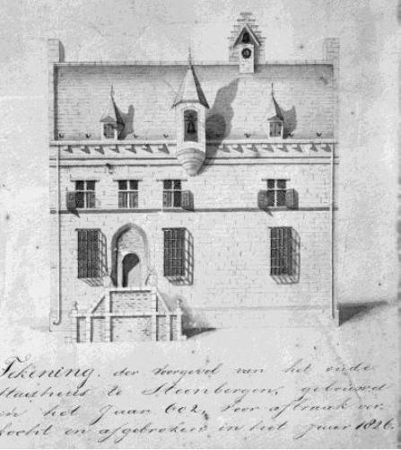 Old (1864) drawing by A.Duyvelaar (died 1888) of the Town Hall of Steenbergen.